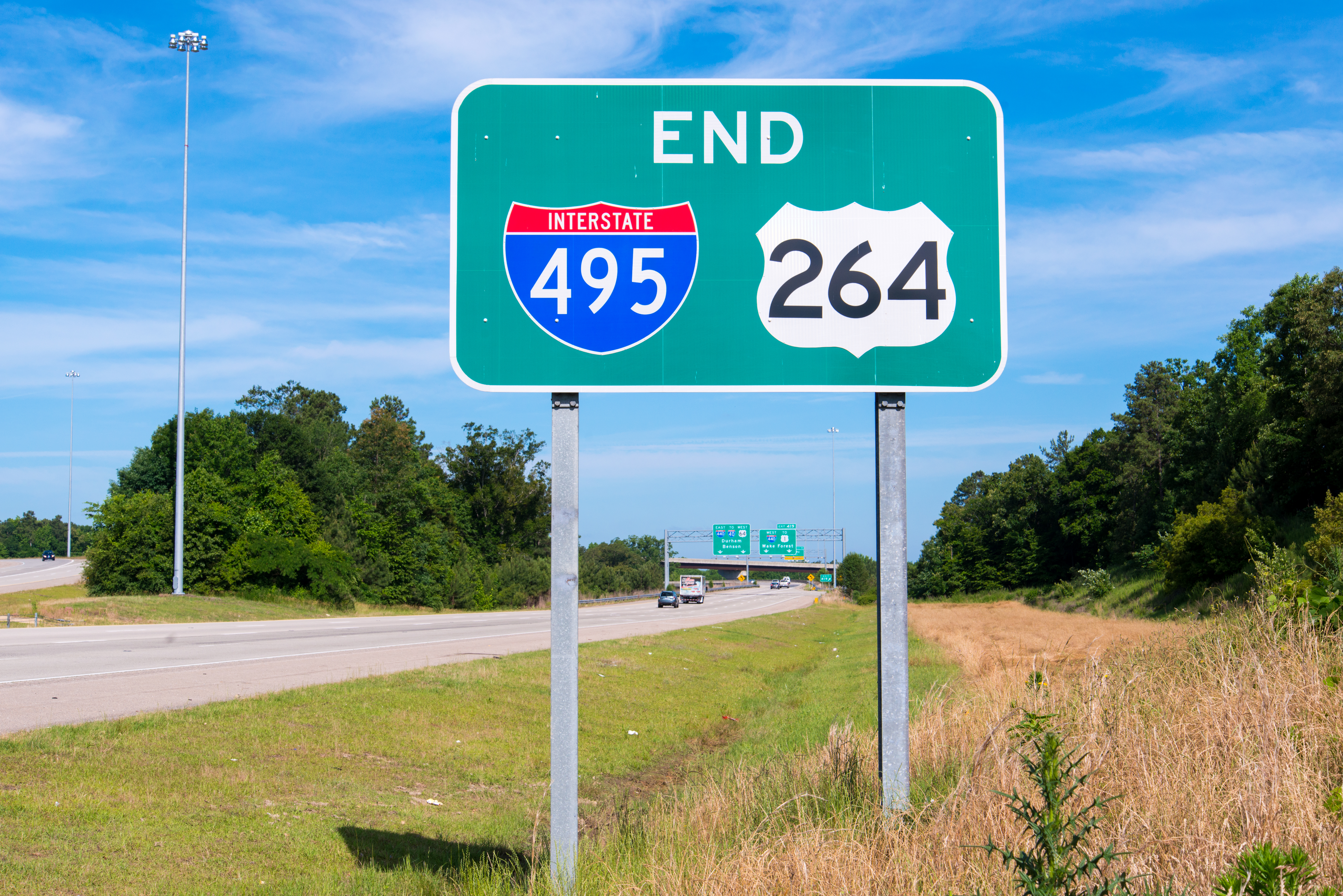 South end of I-495 and west end of US 264 in Raleigh, North Carolina. In the distance is gantries for exit 419 that continues onto I-440.